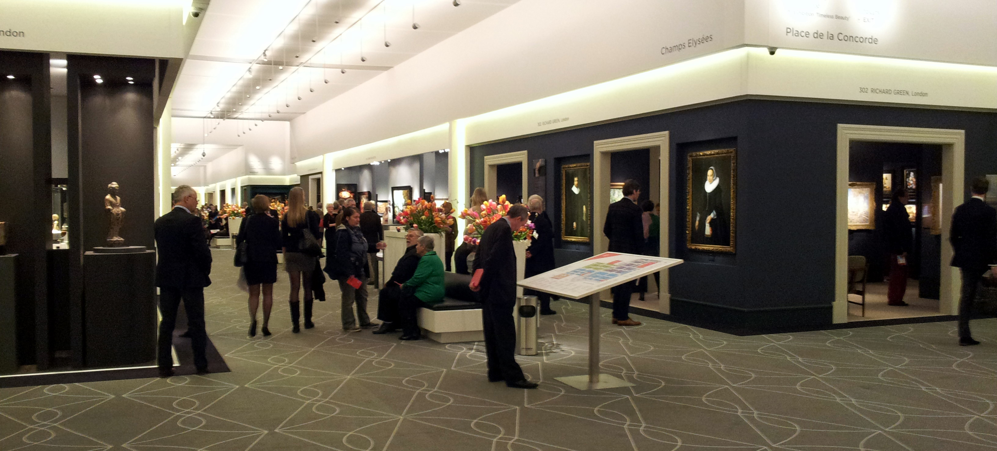 Maastricht, the Netherlands. View of TEFAF 2014, The European Fine Art Fair.